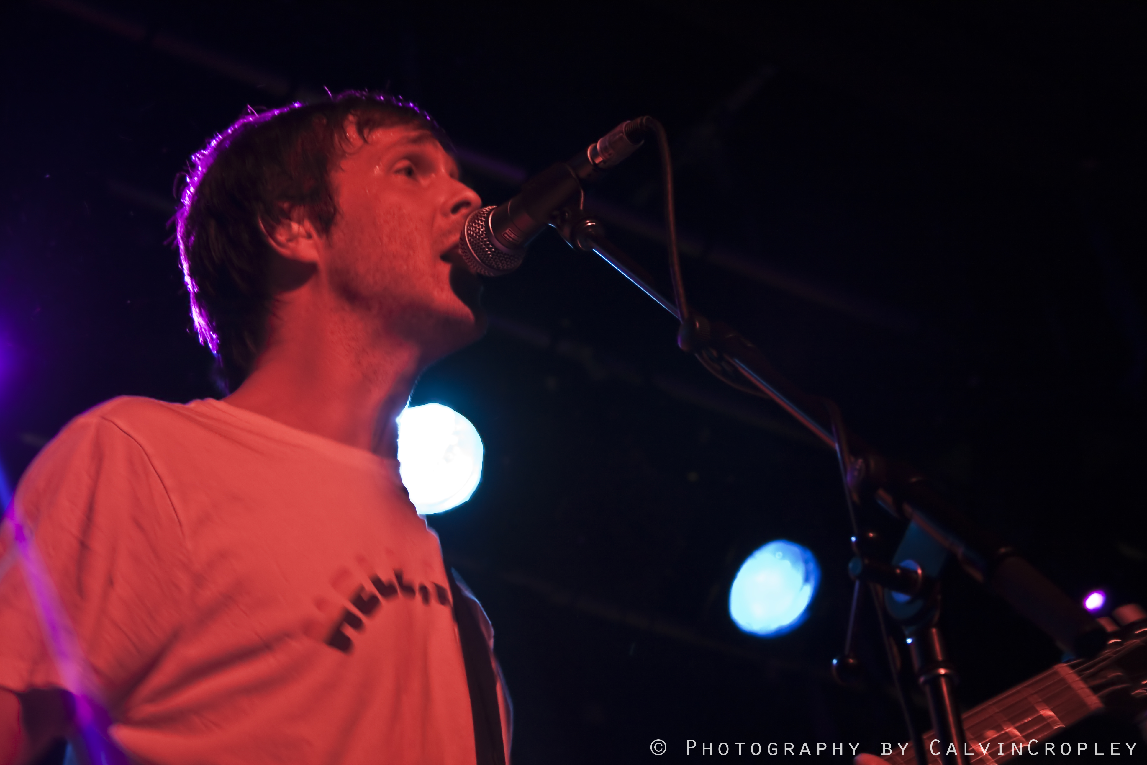 walter schreifels live